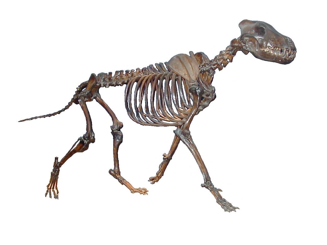 Skeleton of a dire wolf, Canis dirus, in the George C. Page Museum at the La Brea Tar Pits, Los Angeles, California